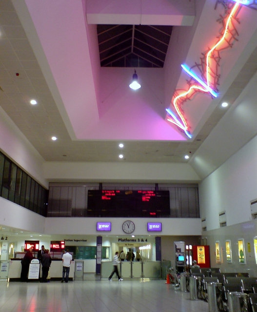 Belfast Central Station (interior). The main hall of Belfast Central Railway Station, fairly deserted just after 11:00pm on a Saturday night. See 601226 for a view of the exterior.